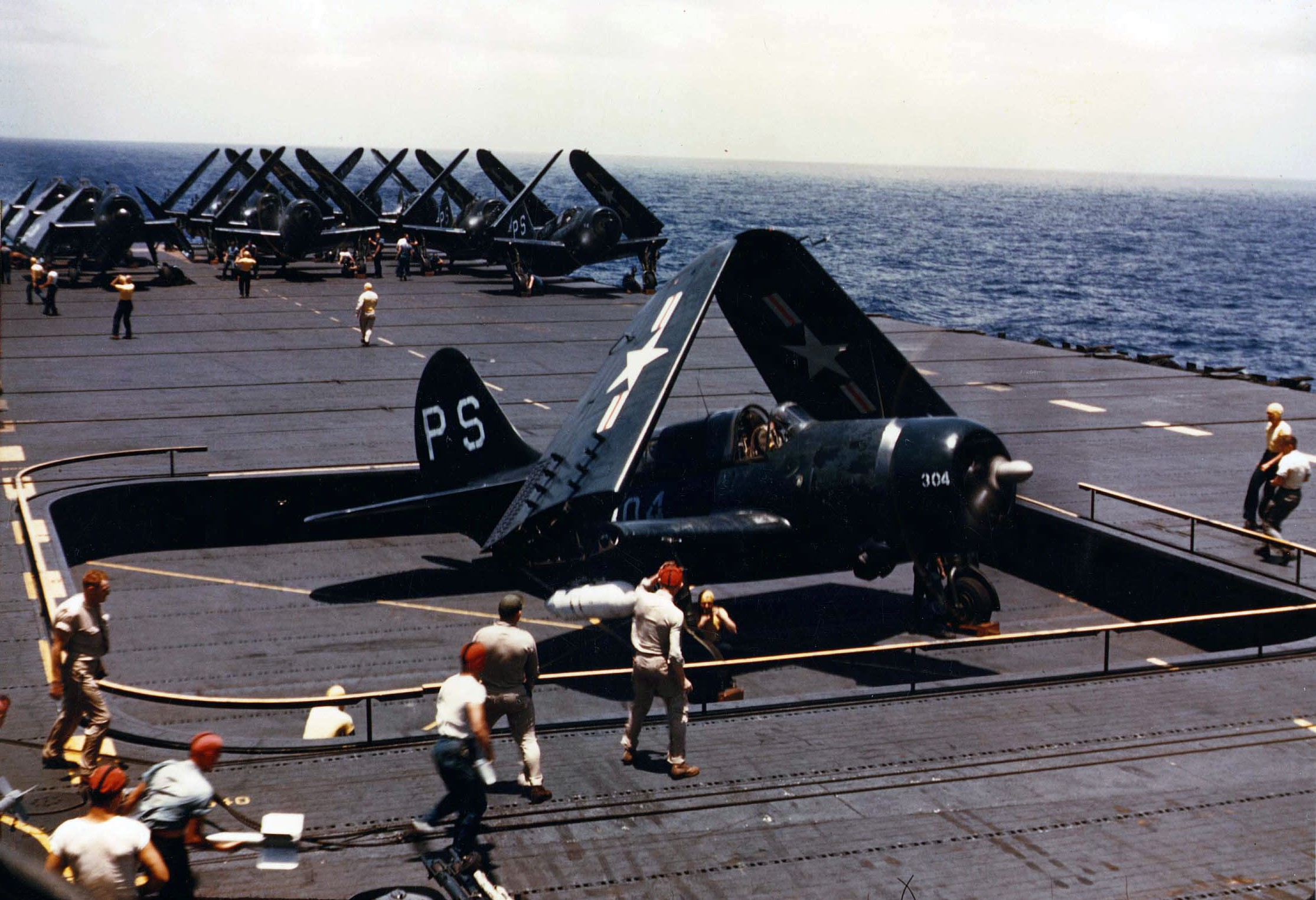 A U.S. Navy Curtiss SB2C-5 Helldiver of attack squadron VA-9A "Tough Kitties" is lifted to the flight deck of the aircraft carrier USS Philippine Sea (CV-47) in preparation for launch from the carrier. Other squadron aircraft are visible aft, in 1948. Redesignated from bombing squadron VB-20 in November 1946, VA-9A completed one cruise to the Mediterranean aboard the Philippine Sea during the period 9 February to 26 June 1948. VA-9A was redesignated VA-94 in August 1948 and disestablished in November 1949.